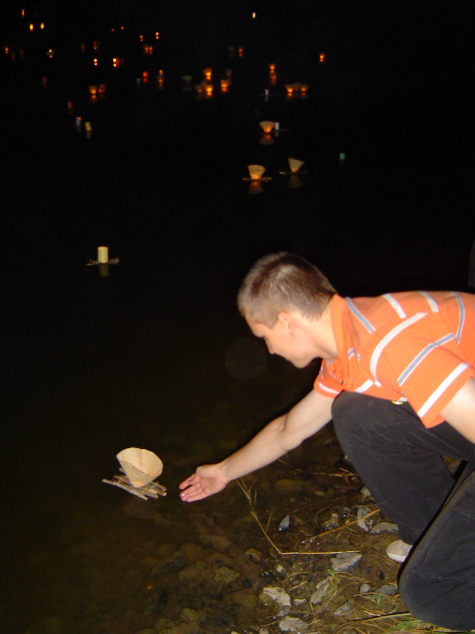 Candles for Hiroshima action in Most, Czech Republic, 2007- 08 - 05 on the eve of 62nd anniversary of Hiroshima bombing, organized by Ne základnám (No to Bases) iniciative